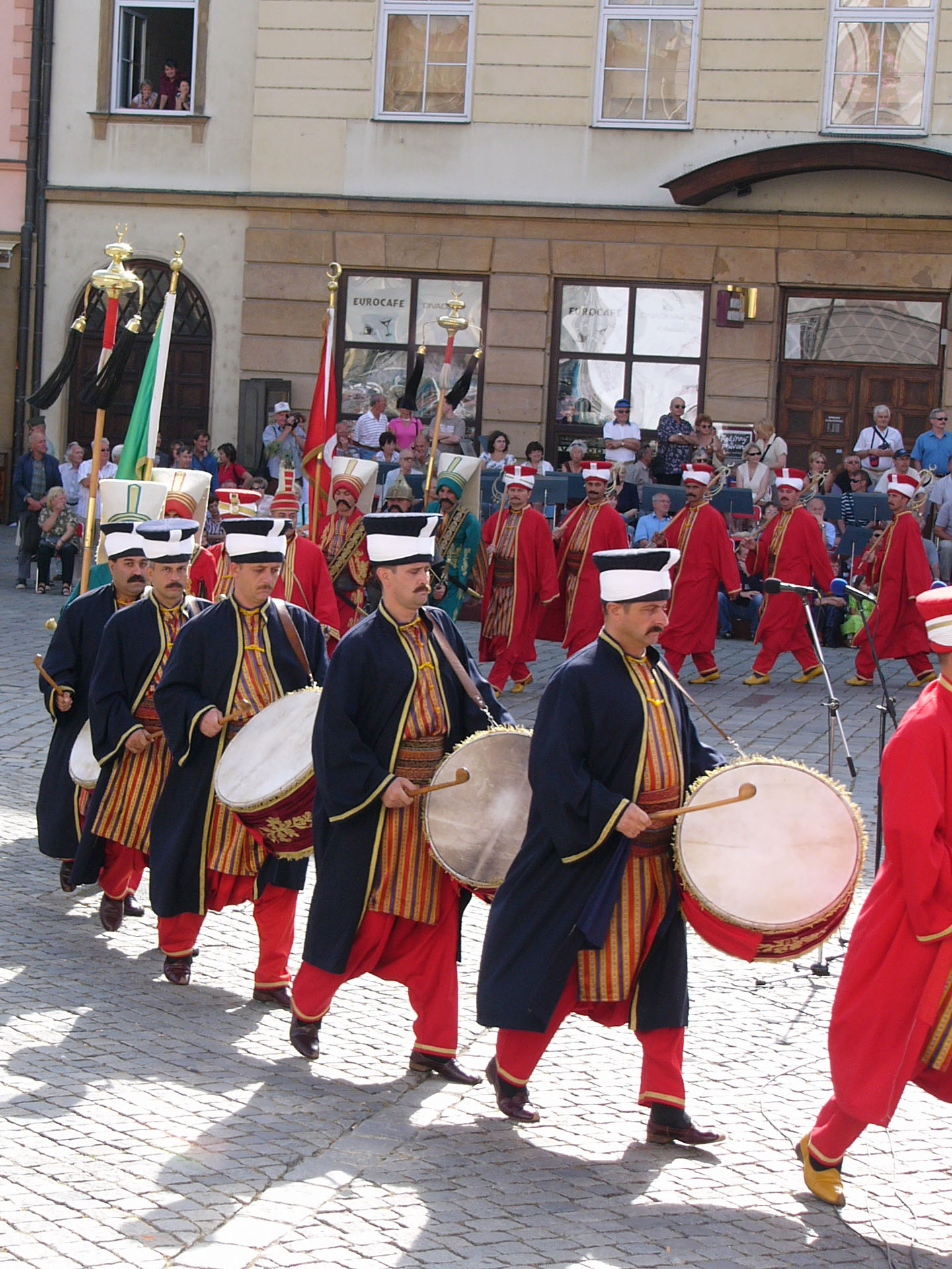 Mehteran or Janissary marching band.